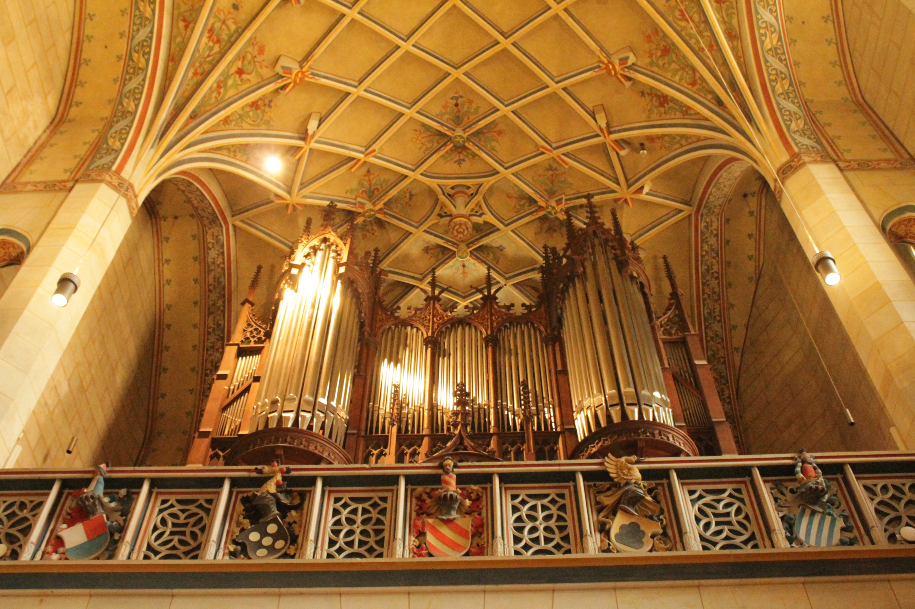 Organ of the Schlosskirche, Wittenberg